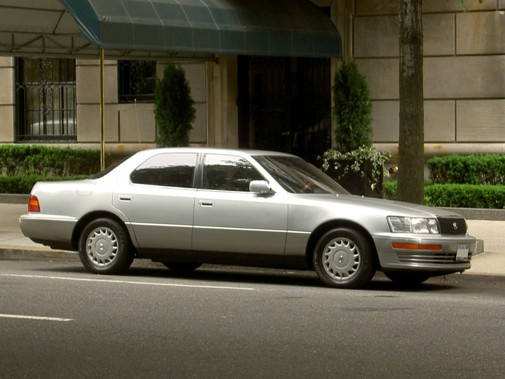 The first generation of Lexus LS, LS 400 photographed in New York City, U.S.A. in 2007